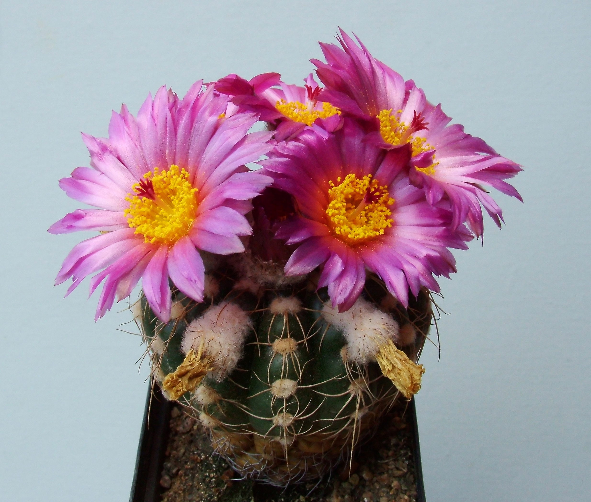 Notocactus uebelmannianus Kh.499 (Khanon-select) — plant selection (large flowers, violet color) 15-year-old plant. (Notocactus uebelmannianus = Parodia werneri)